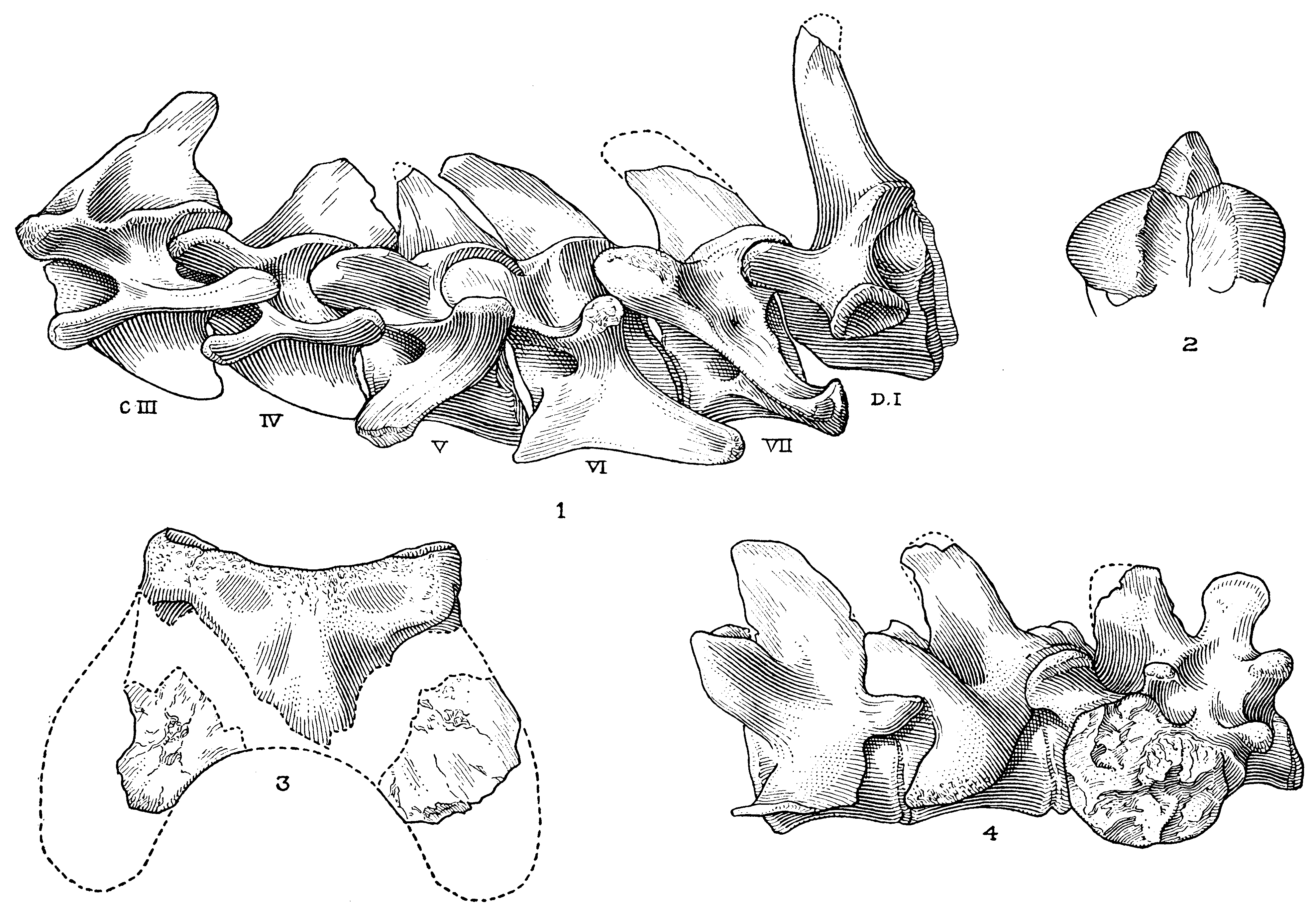 Thylacosmilus atrox. Paratype, of first dorsal vertebra. 4, Lateral view of two posterior lumbar vertebroe and of sacrum in series. T. atrox. Holotype, P14531. X 23. 2, Anterior end of the axis. 3, Dorsal view of the atlas.